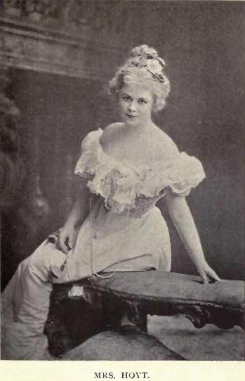 Caroline Miskel-Hoyt, photographed in Chicago